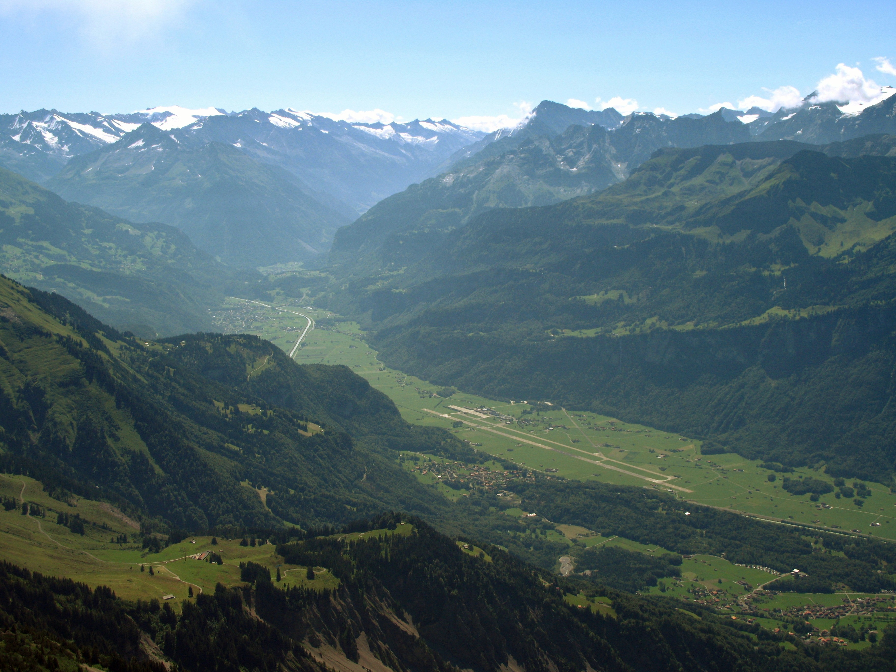 Meiringen and the Swiss Air Force base viewed from the Rothorn, Brienz, Switzerland